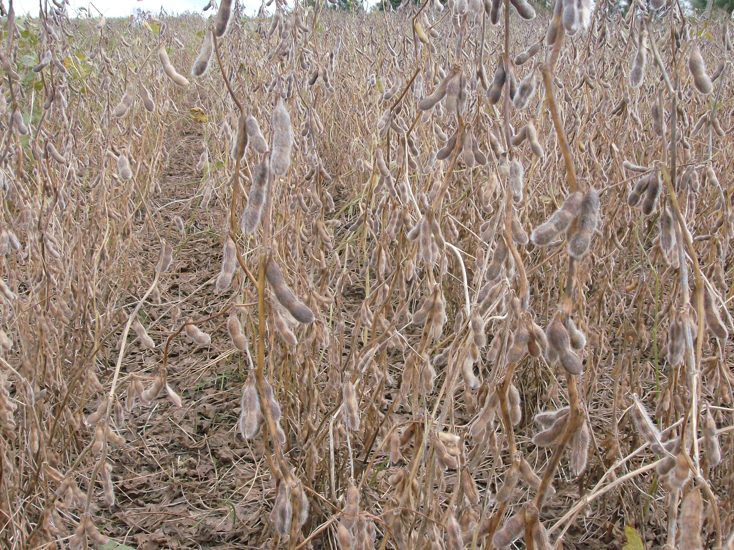 In the picture it is possible to see a soy plant wich is very near to harvest's day. The picture has been taken on Zarate, Provincia de Buenos Aires, Argentina.